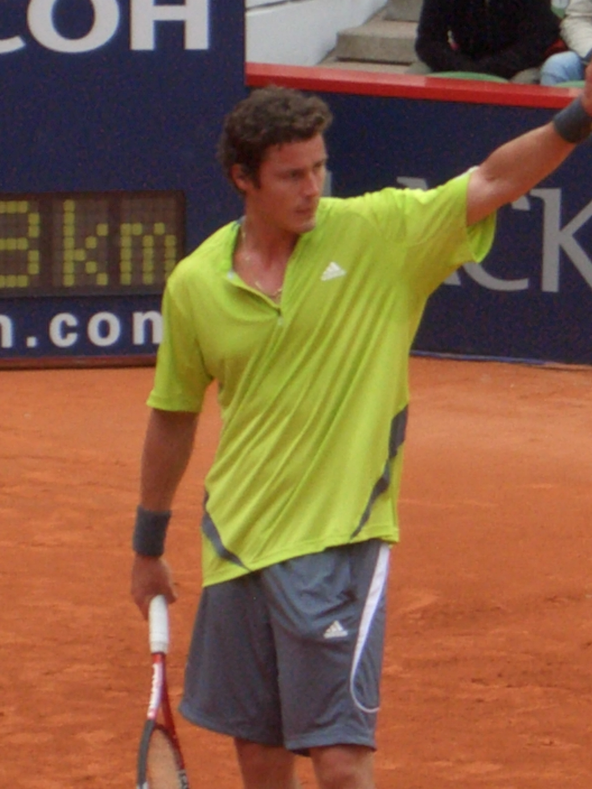 Marat Safin at the Hamburg Masters 2007, playing Nicolas Massu